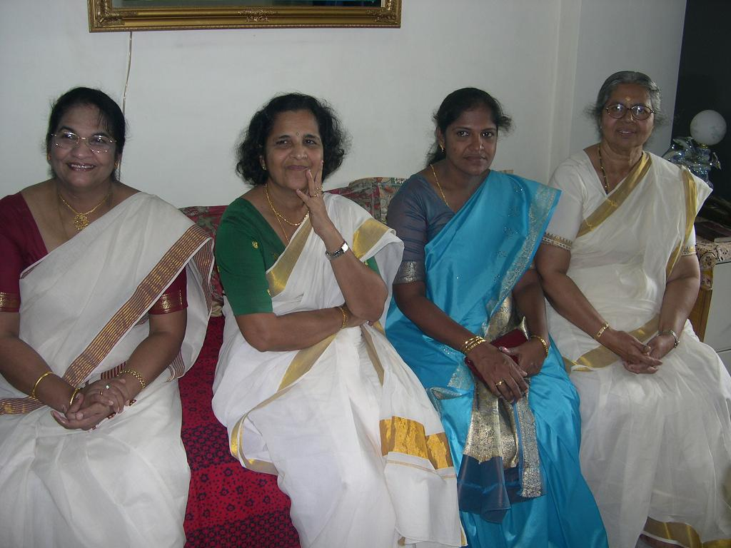 Dressed up for Onam: Three ladies in white Kerala saris and one in a blue sari.